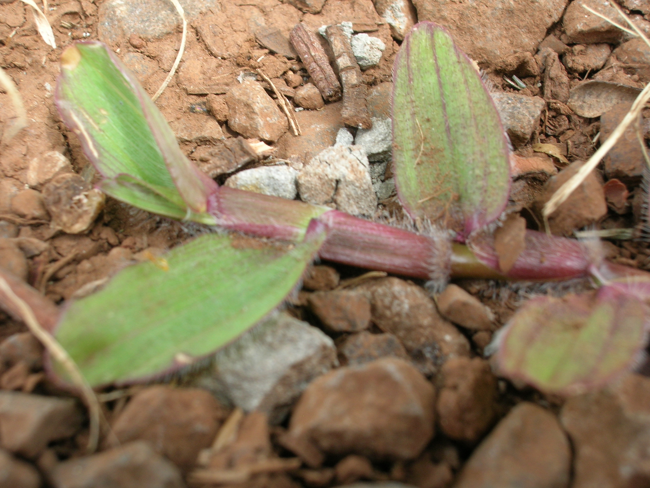 Axonopus compressus (leaves). Location: Maui, Makawao